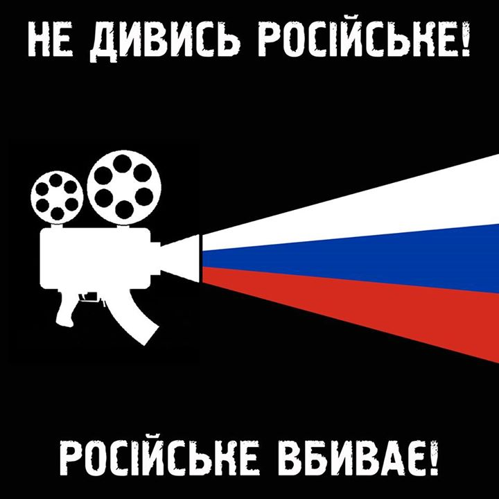 Agitation poster of activists of campain "Boycott Russian Films". On poster written in Ukrainian: "Do not look Russian cinema! Russian films kill!"